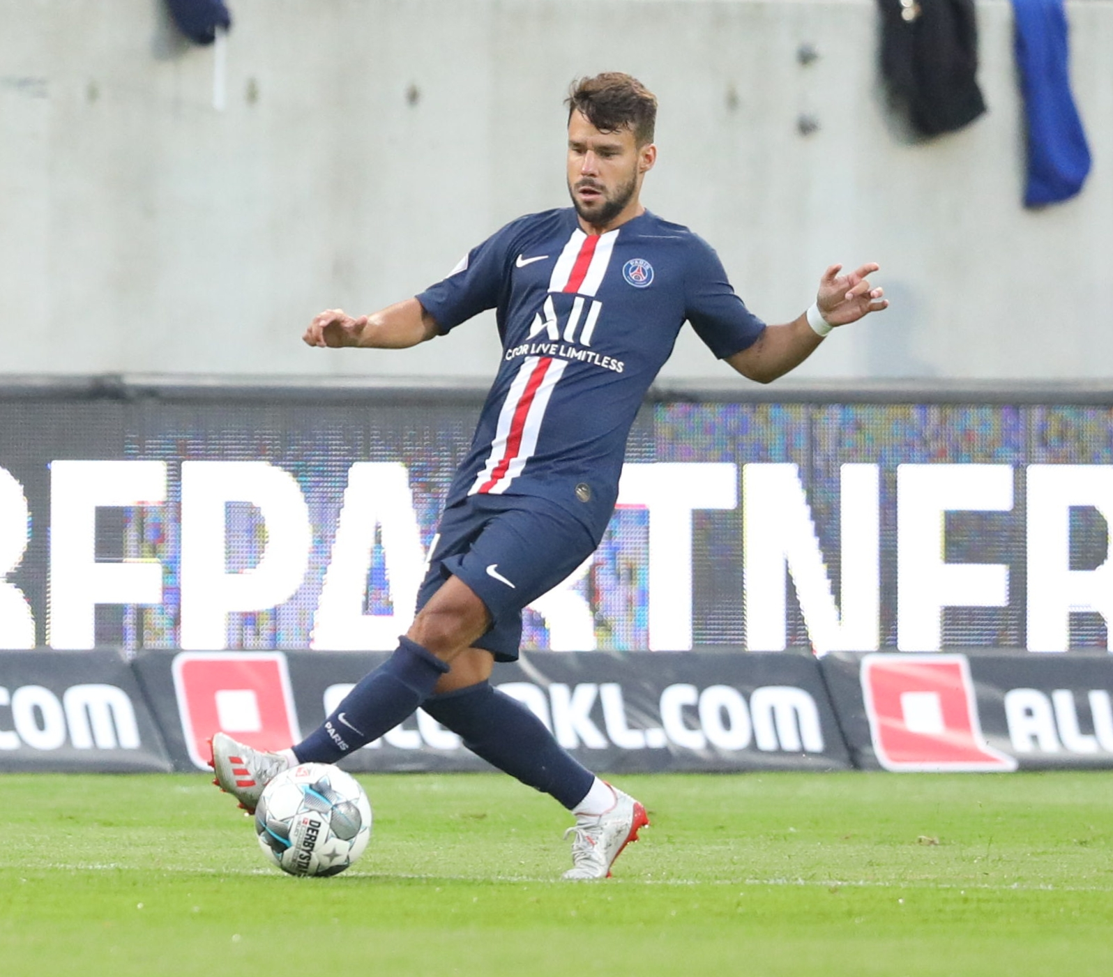 Test game, 17th July 2019: SG Dynamo Dresden vs. Paris Saint-Germain 1:6 (0:3)